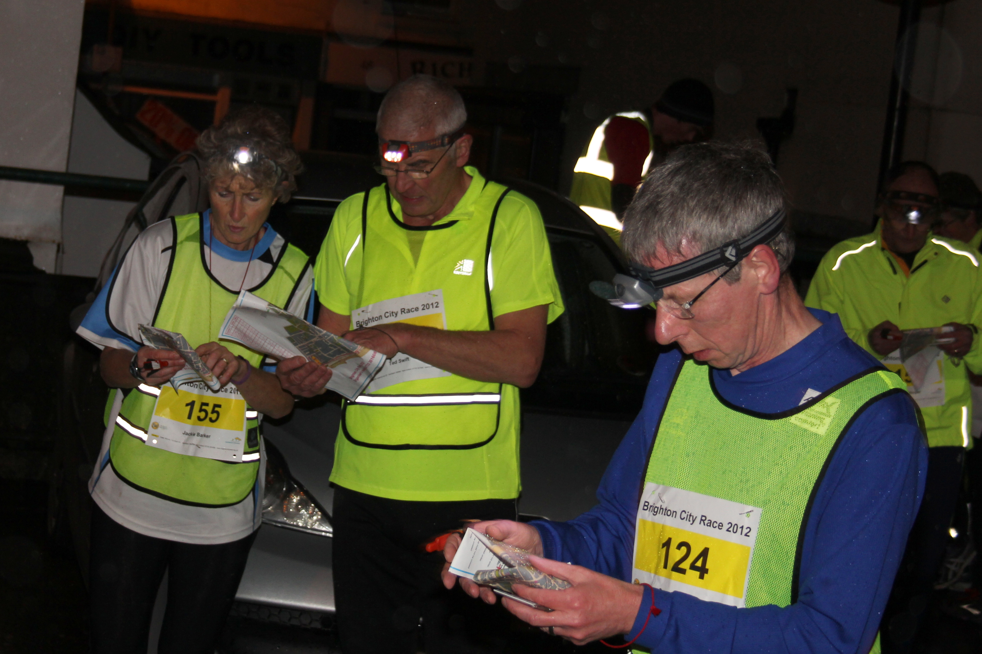 Urban Orienteers check route to next control in the car park of Morrisons Supermarket, Kemp Town, Brighton, UK.